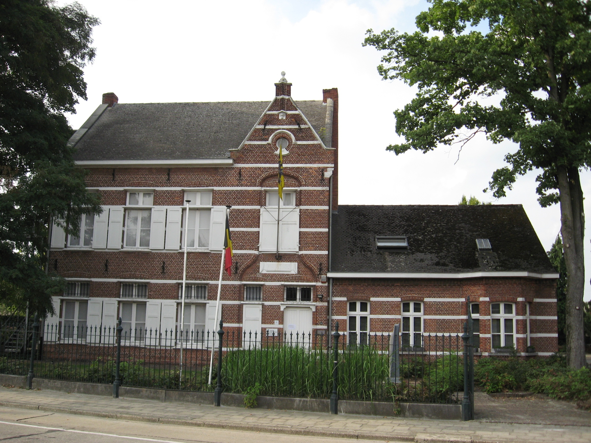 Jakob Smitsmuseum in Mol, Antwerp, Belgium